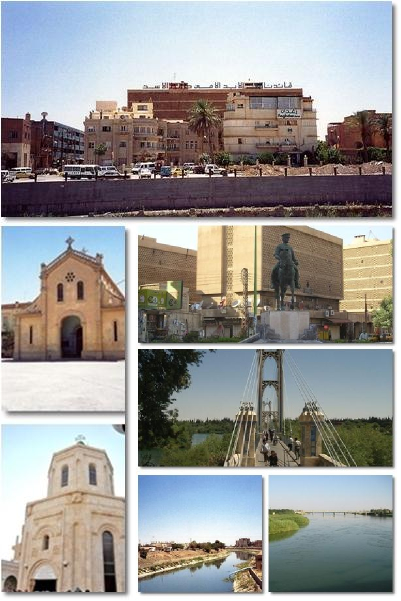 Deir ez-Zor Collage, Syria Top: Hotels in Deir ez-Zor, Ascription: Soman Source Middle Left: Church in Deir ez-Zor, Ascription: Soman Source Bottom Left: Armenian Genocide Memorial, Ascription: Ashnag Source Right Under Top: March 8 Square, Ascription: Saahat azar 8 Source Middle Right Under Top: Deir ez-Zor Suspension Bridge, Ascription: Brejnev, Chadi Samaan Source Bottom Right: Euphrates River and a bridge, Ascription: Heretiq Source Bottom Middle: Euphrates and general river, Ascription: Soman Source